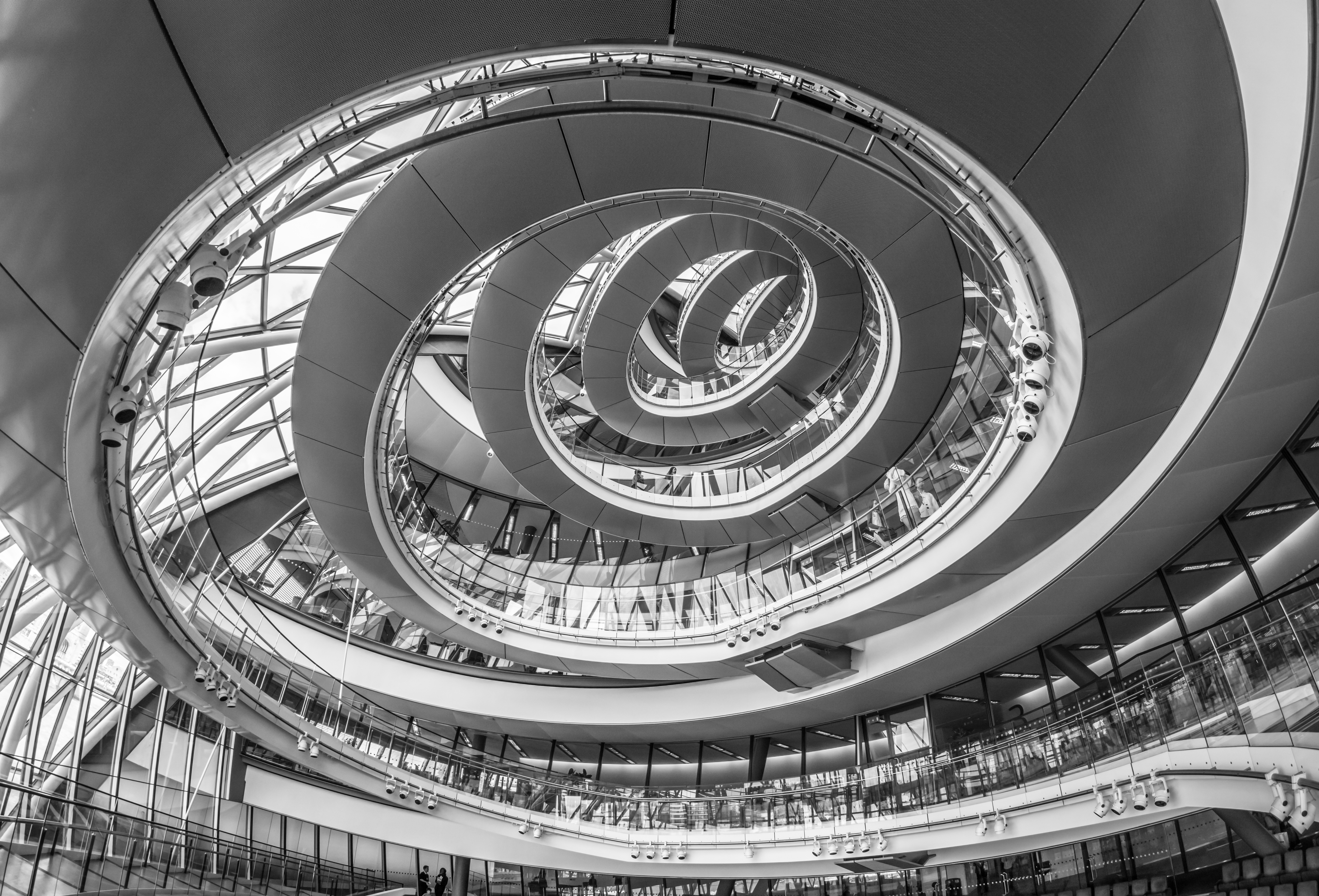 Looking up at the spiral staircase in City Hall, London.